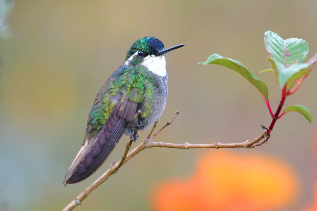 White-throated Mountain-gem photo taken at Savegre Mountain Hotel, Costa Rica.